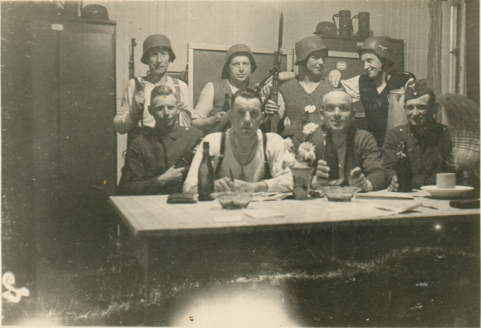 German soldiers in the Continuation War in 1942. Photos made in and around Rovaniemi.